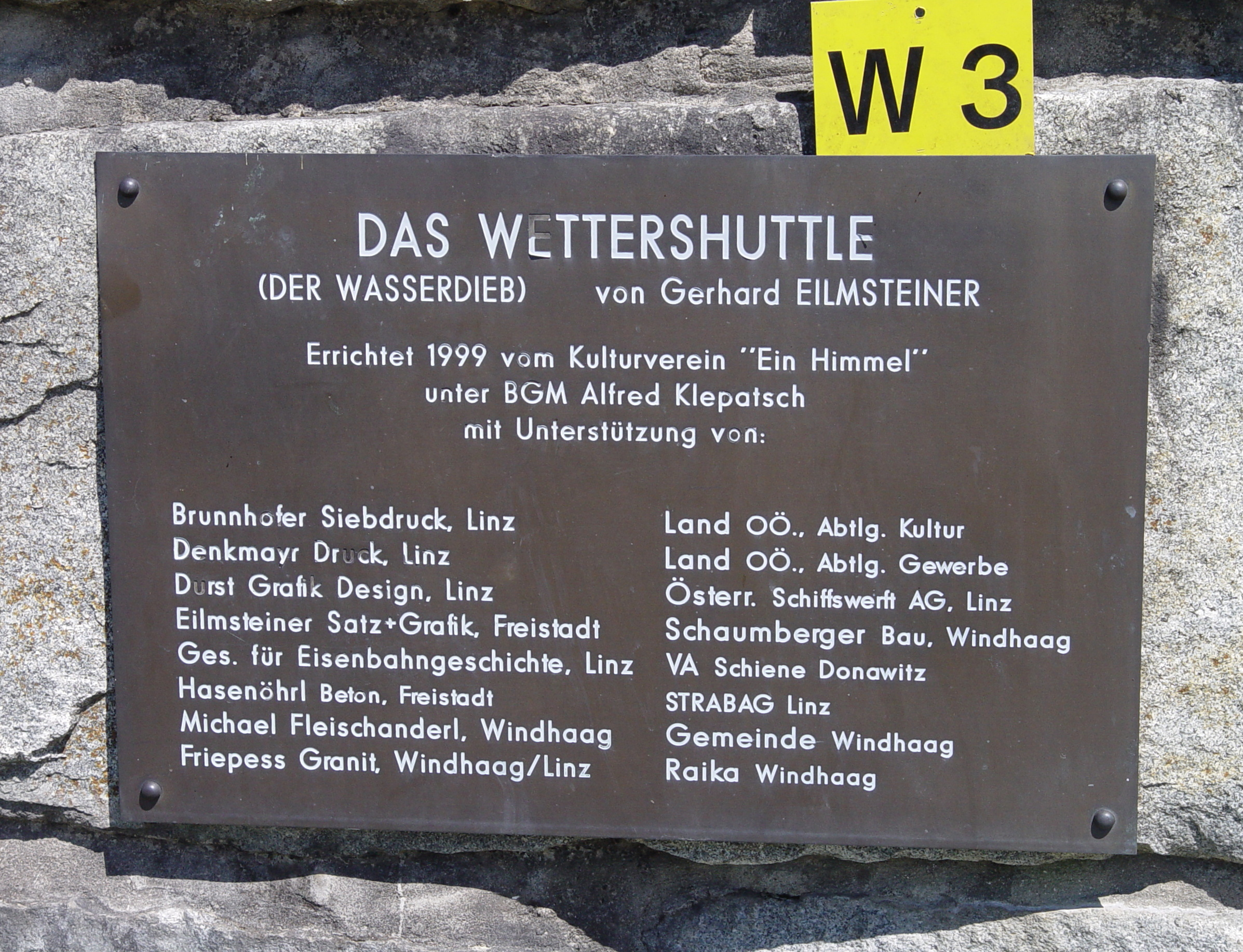 Information plate of the Wettershuttle in Windhaag (Austria)